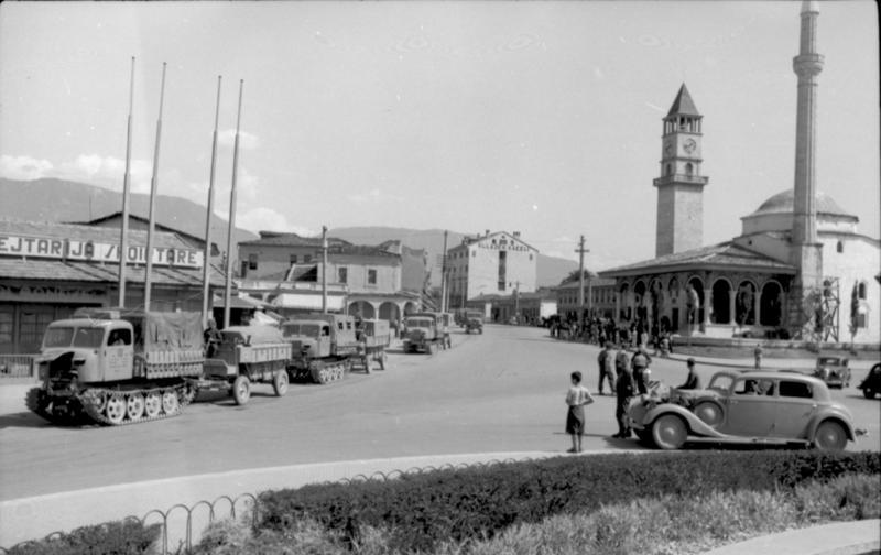 Raupenschlepper Ost (RSO) (literally: "Crawler Tractor East") column passing by Et'hem Bey Mosque in central Tirana, Albania, after taking over the city from the Italians, September 1943.